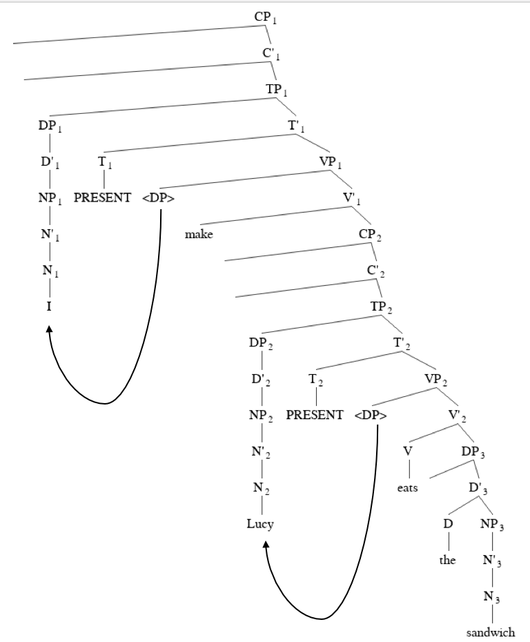 I make Lucy eats sandwich.